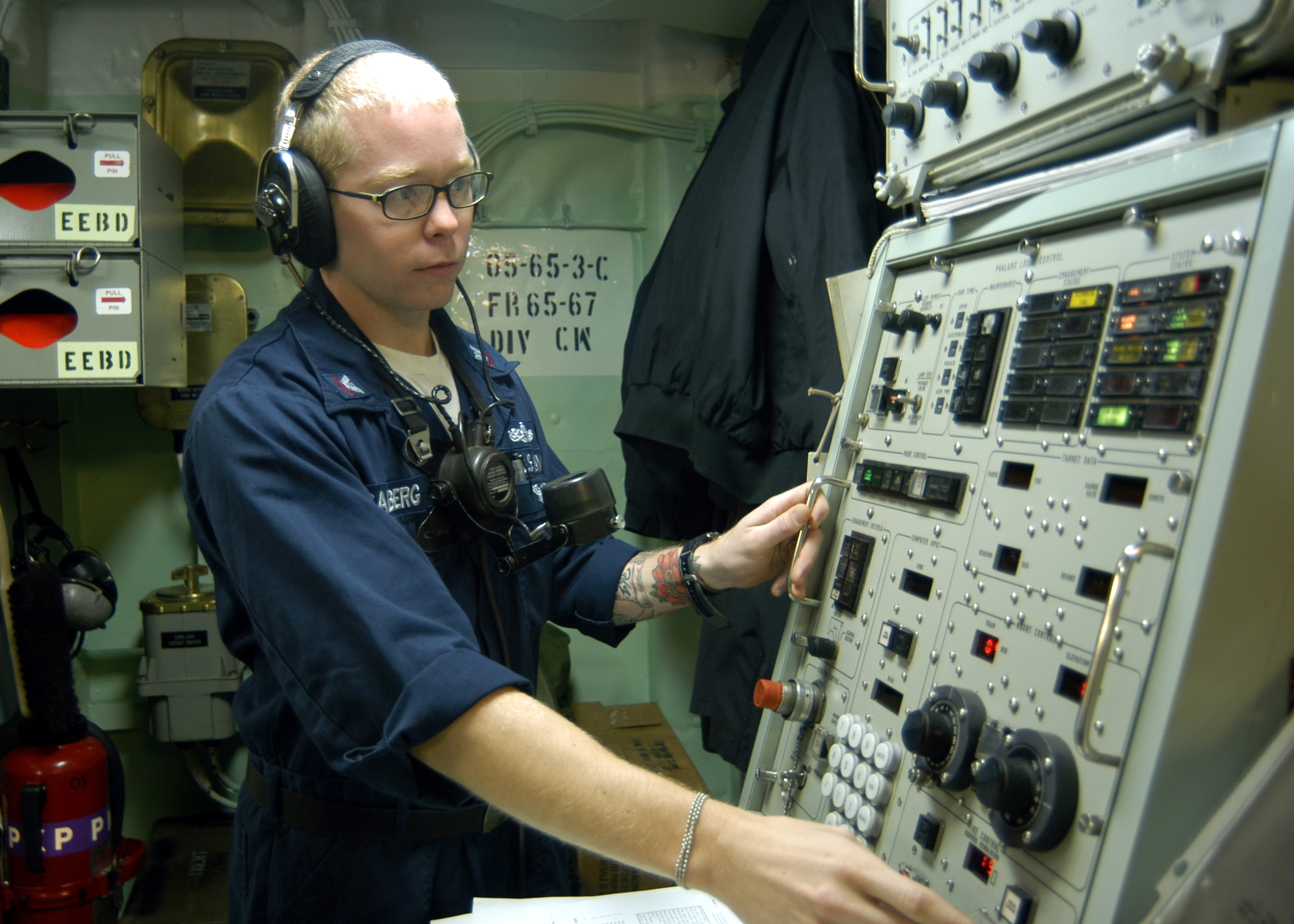 The Atlantic Ocean (Jun. 23, 2003) -- Fire Controlman 2nd Class Brian Gadeberg stands ready to fire the close in weapon system (CIWS) at the local control panel in the CIWS control room aboard USS Kearsarge (LHD 3). Kearsarge is on its way home from a successful deployment. The multi-purpose amphibious assault ship participated in Operation Enduring Freedom, Operation Iraqi Freedom, and provided support to the President of the United States during his summits with the Arab leaders in Egypt and Jordan. Kearsarge was also extended on deployment when directed to prepare for possible support to Operation Shinning Express in Western Africa. Kearsarge is scheduled to arrive at their homeport of Naval Station Norfolk on June 30. U.S. Navy photo by Photographer's Mate 1st Class Jeffrey Truett. (RELEASED)